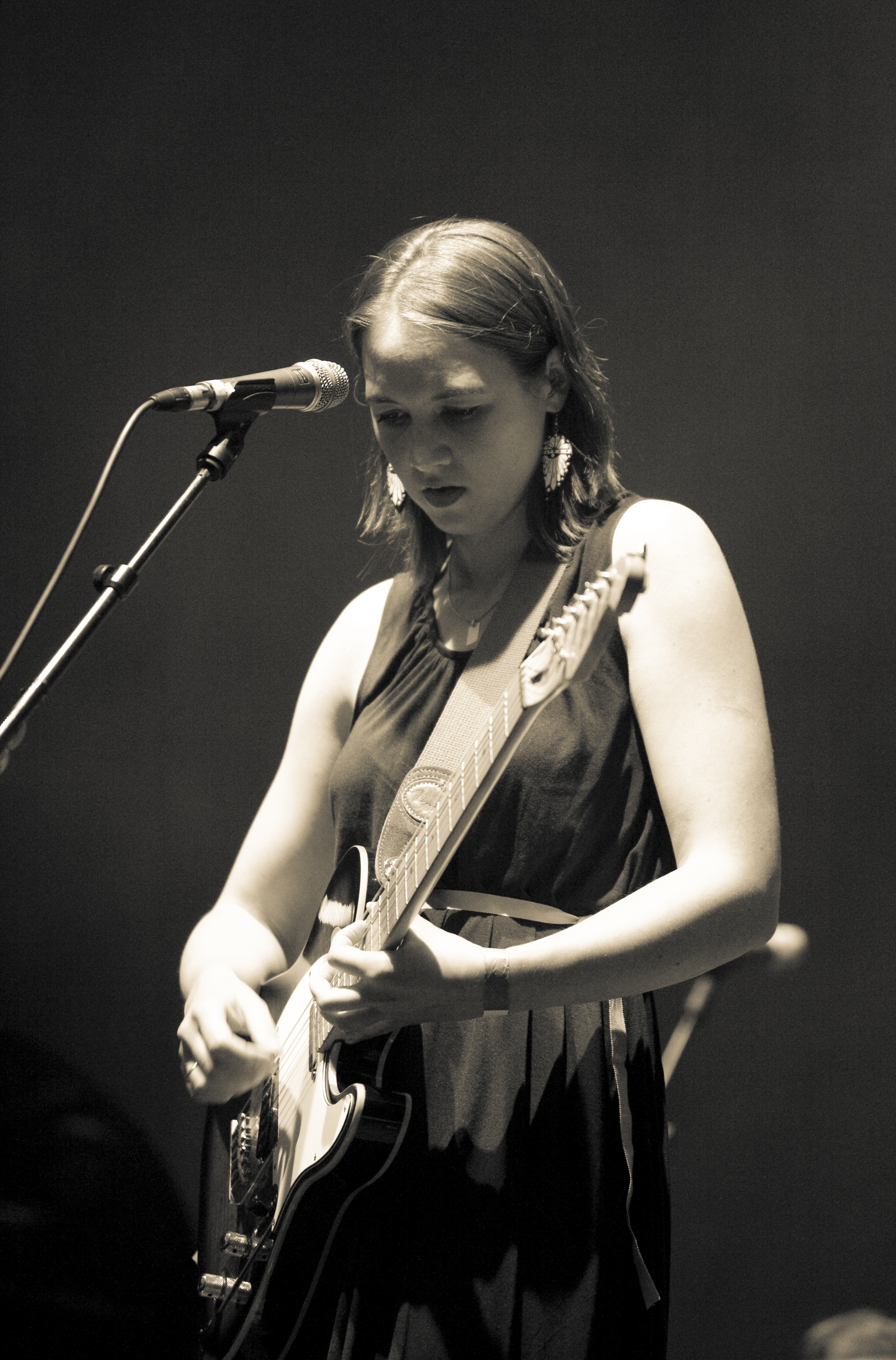 Swiss Singer-Songwriter Sophie Hunger in concert